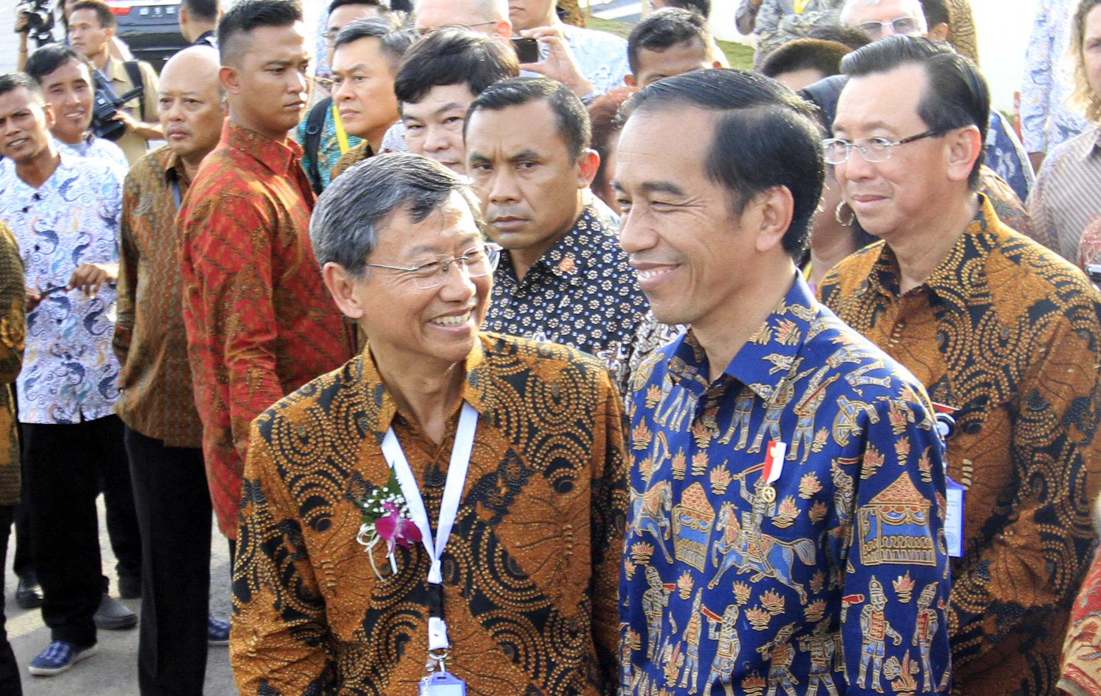 President Jokowi and S.D Darmono (Opening Ceremony KIK)